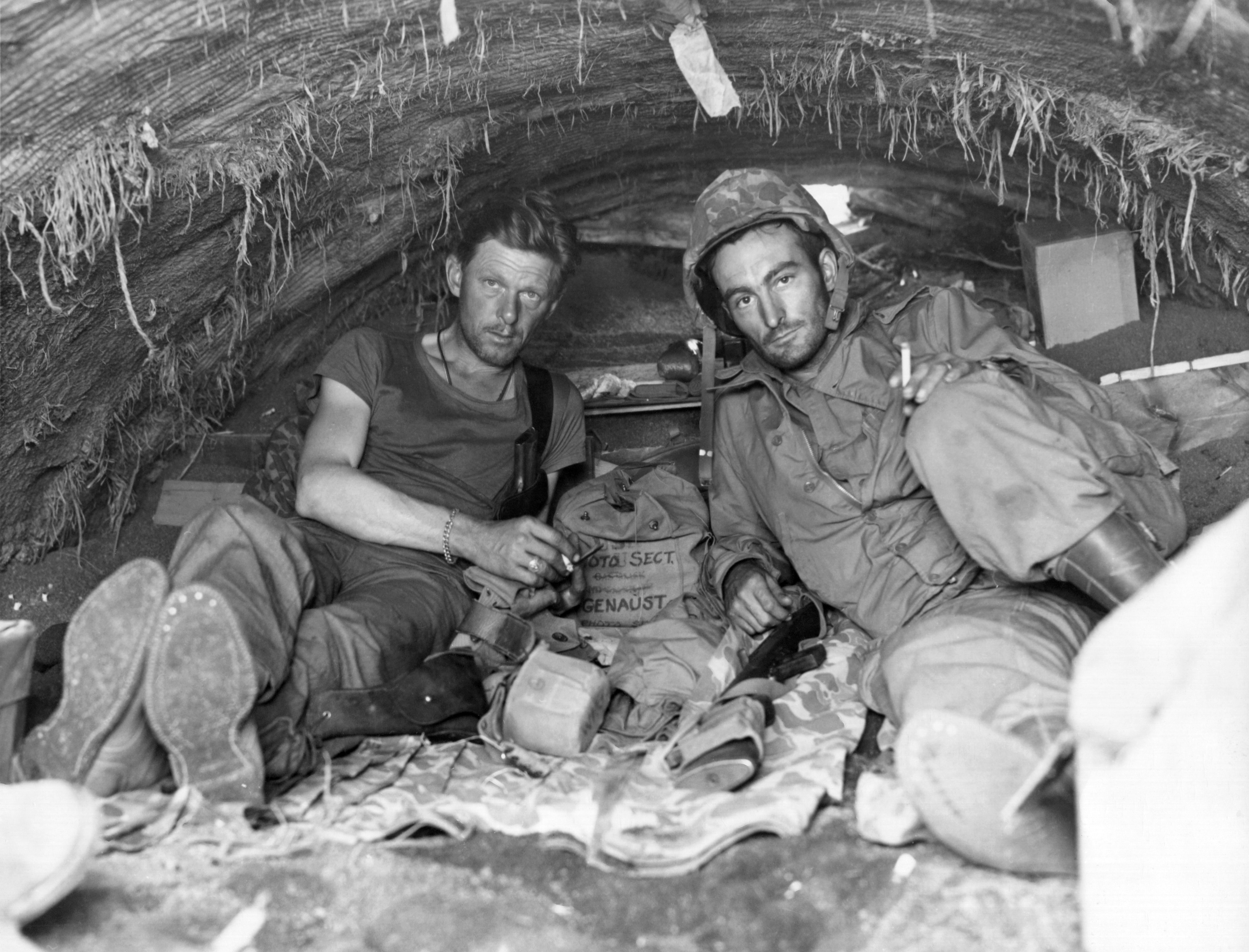 “PHOTOGS ON IWO----Left, Sergeant W. A. Genaust, of St. Paul, Minn., and Corporal Atlee S. Tracy, of Chicago, Ill.., movie photographers of the Marines, taking a rest and smoke in their temporary home on Iwo Jima.” "One of the many dugouts we took over." From the Thayer Soule Collection (COLL/2266) at the Archives Branch, Marine Corps History Division OFFICIAL USMC PHOTOGRAPH